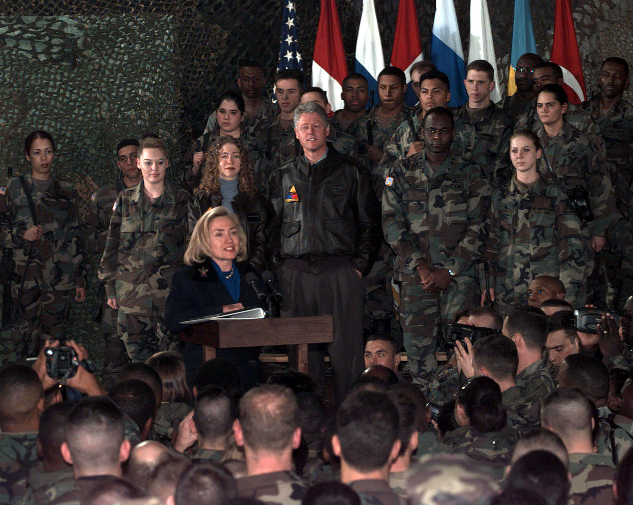 First Lady Hillary Rodham Clinton talks to Task Force Eagle soldiers at the 21 Club, Eagle Base, Tuzla, Bosnia and Herzegovina, on Dec. 22, 1997. Mrs. Clinton, daughter Chelsea, former Senator Bob Dole and his wife Elizabeth, accompanied President Bill Clinton as he paid a holiday visit with the troops in Tuzla.